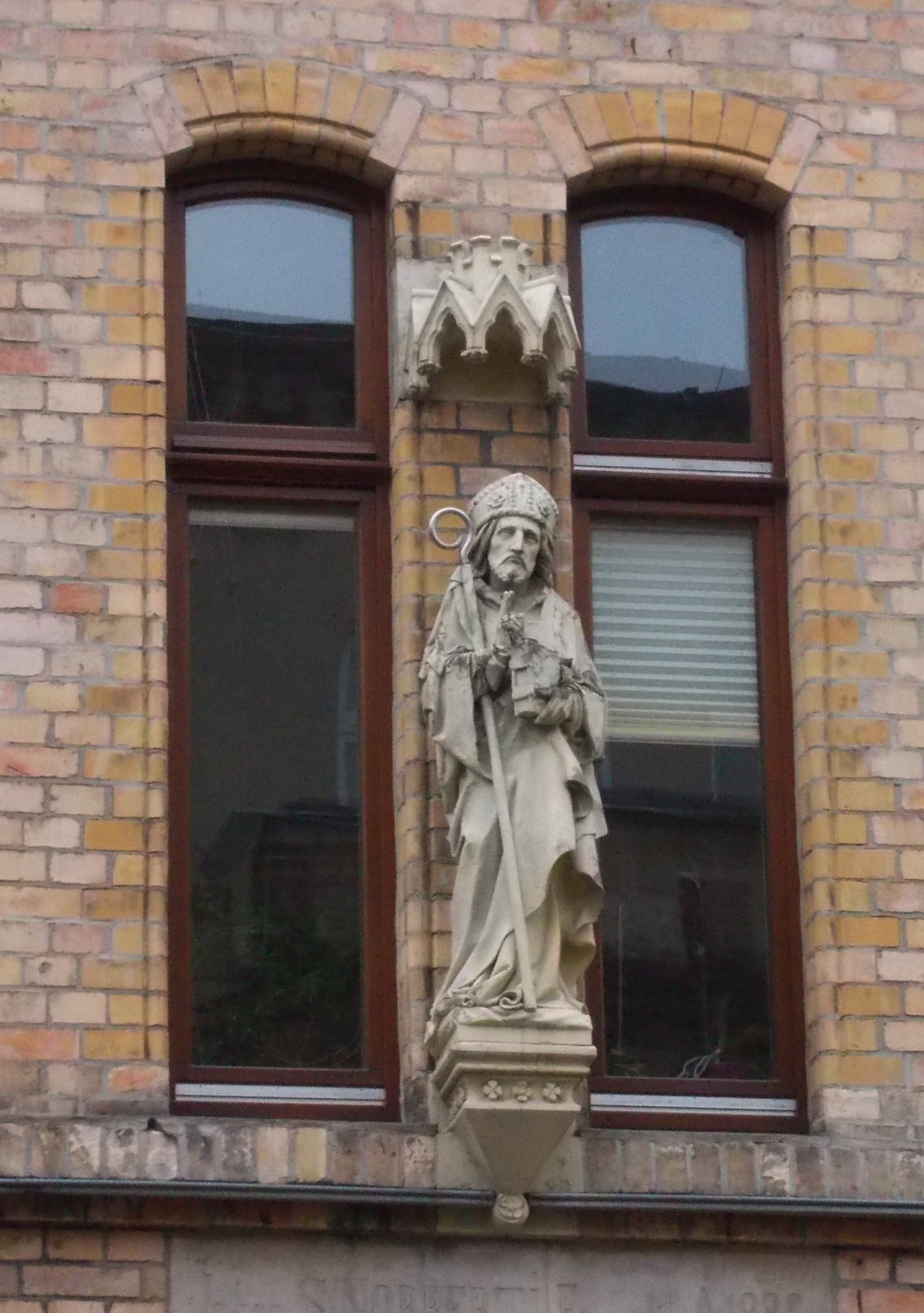 Statue of St. Norbert at the Roman Catholic church St. Norbert in Halle (Saale)